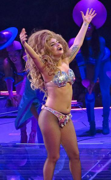 Lady Gaga, ARTPOP Ball Tour, Bell Center, Montréal, 2 July 2014 (20) Gaga performing on ArtRave: The Artpop Ball tour